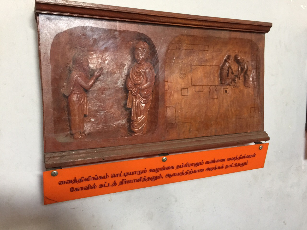 Woodwork to describe about temple history.